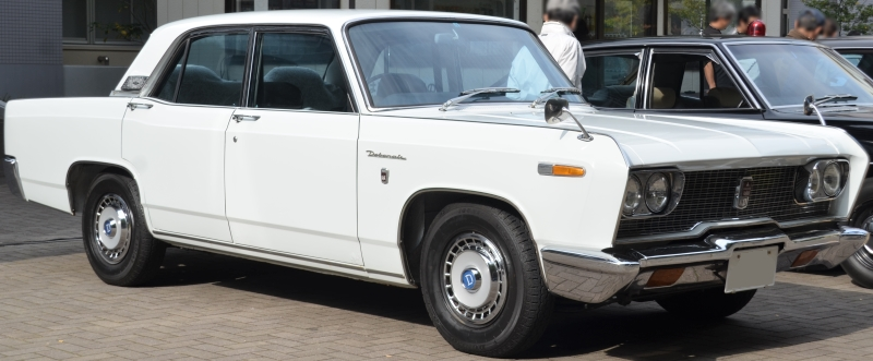 Mitsubishi Debonair Executive